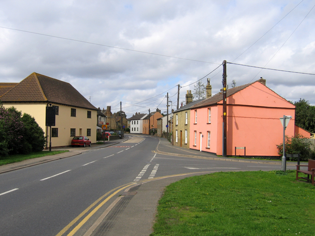 High Street, Earith, Cambs. looking west along the A1123 near its junction with Bridge End.